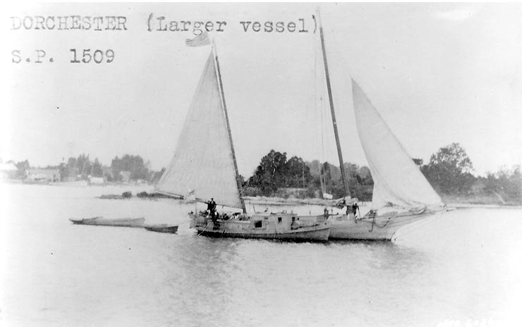 Schooner Dorchester in commission as United States Navy patrol vessel USS Dorchester (SP-1509) with a motorboat alongside